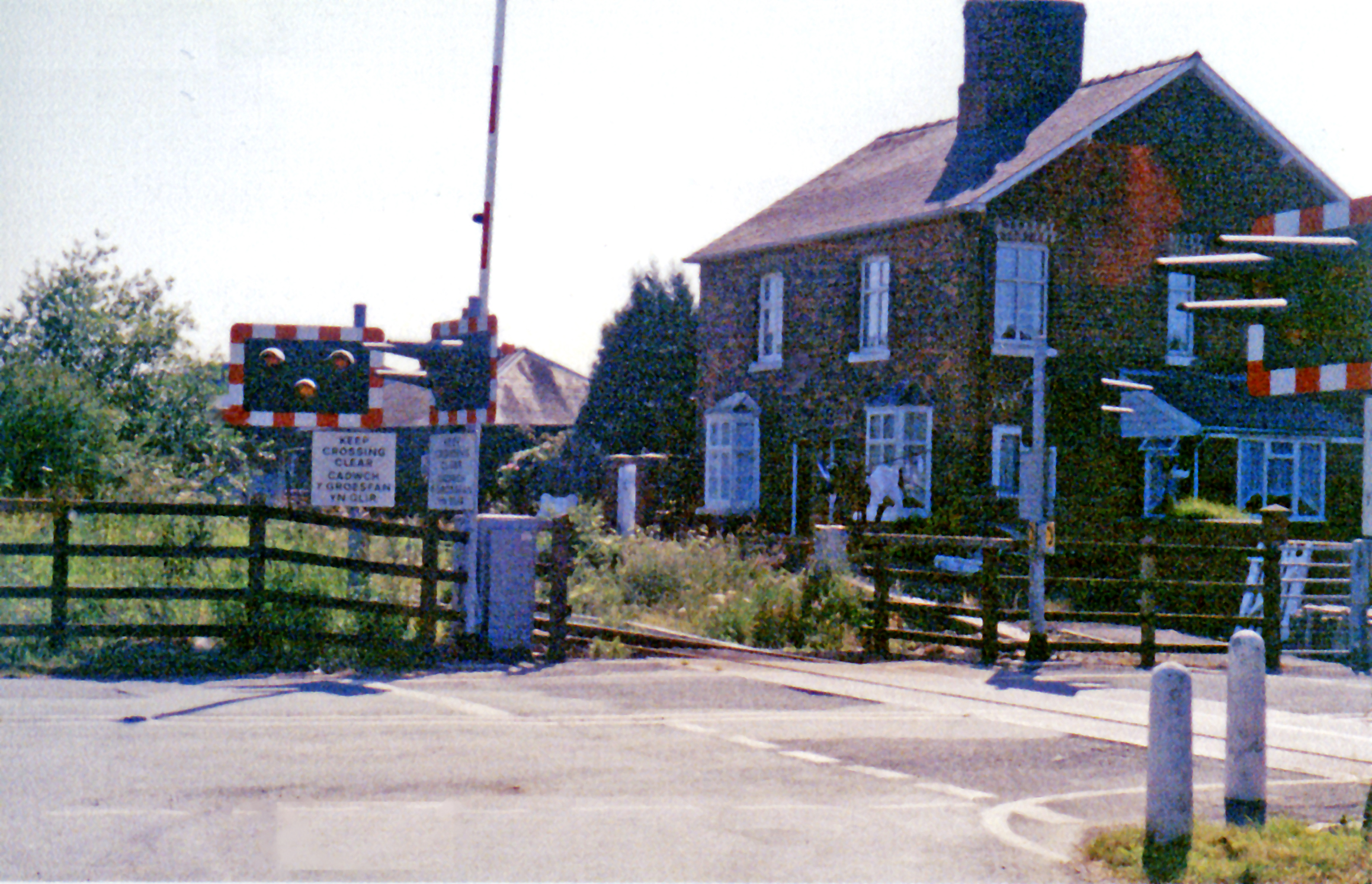 Abermule station (remains), 1994. View SW, towards Machynlleth etc.: ex-Cambrian Whitchurch - Welshpool - Machynlleth - Aberystwyth/Pwllheli main line, former junction of the branch to Kerry. The station was closed 14/6/65, when also the main line from Whitchurch as far as Buttington (junction of the Joint line from Shrewsbury) was closed.